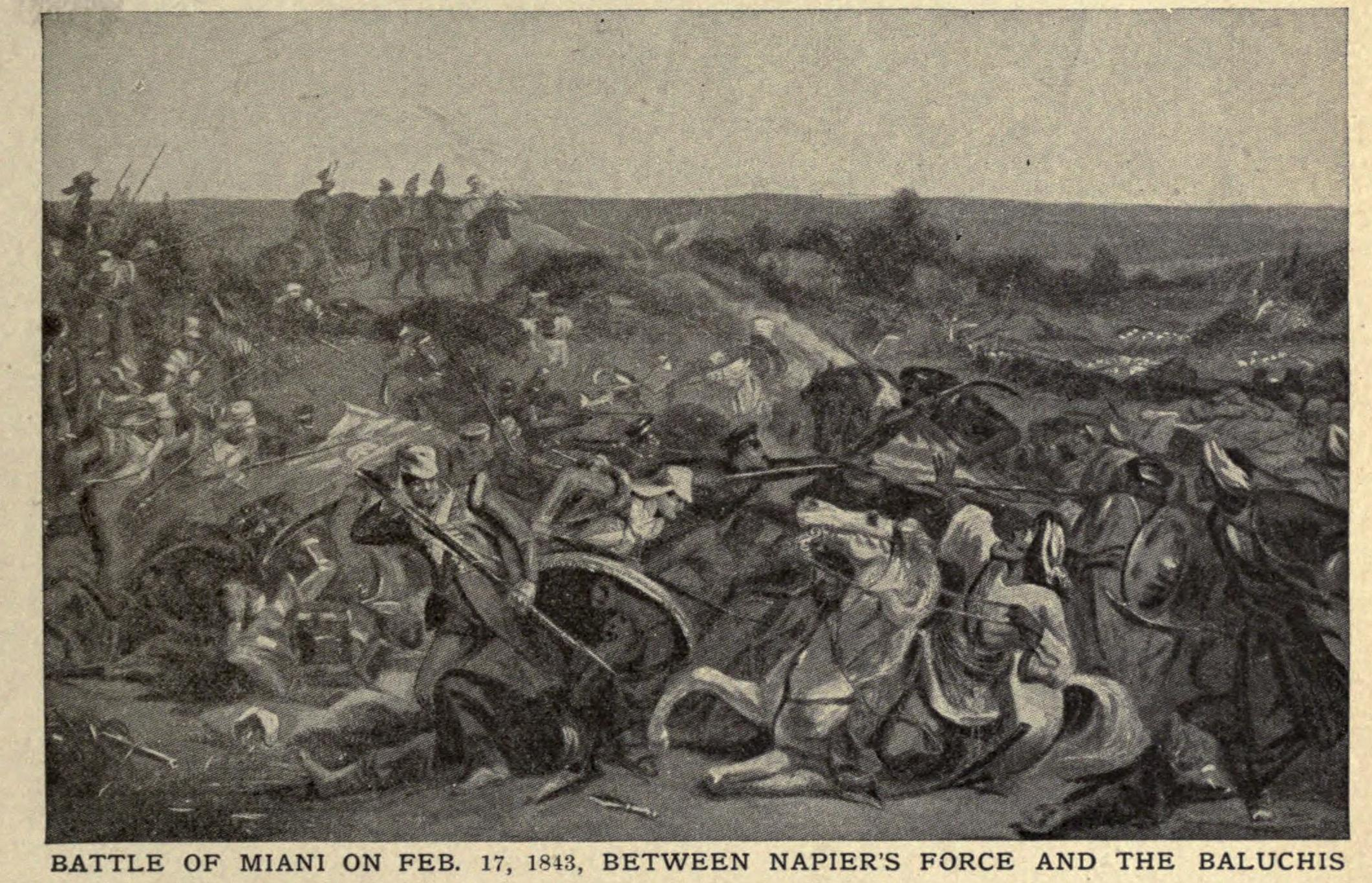 The book of history. A history of all nations from the earliest times to the present, with over 8,000 illustrations ([1915?-21]) Author: Bryce, James Bryce, Viscount, 1838-1922; Thompson, Holland, 1873-1940; Petrie, W. M. Flinders (William Matthew Flinders), Sir, 1853-1942 Volume: 2 Subject: World history Publisher: New York : The Grolier society; London, The Educational book co. Possible copyright status: NOT_IN_COPYRIGHT Language: English Call number: srlf_ucla:LAGE-623290 Digitizing sponsor: MSN Book contributor: University of California Libraries Collection: cdl; americana